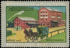 brand advertising Bärenheck mill